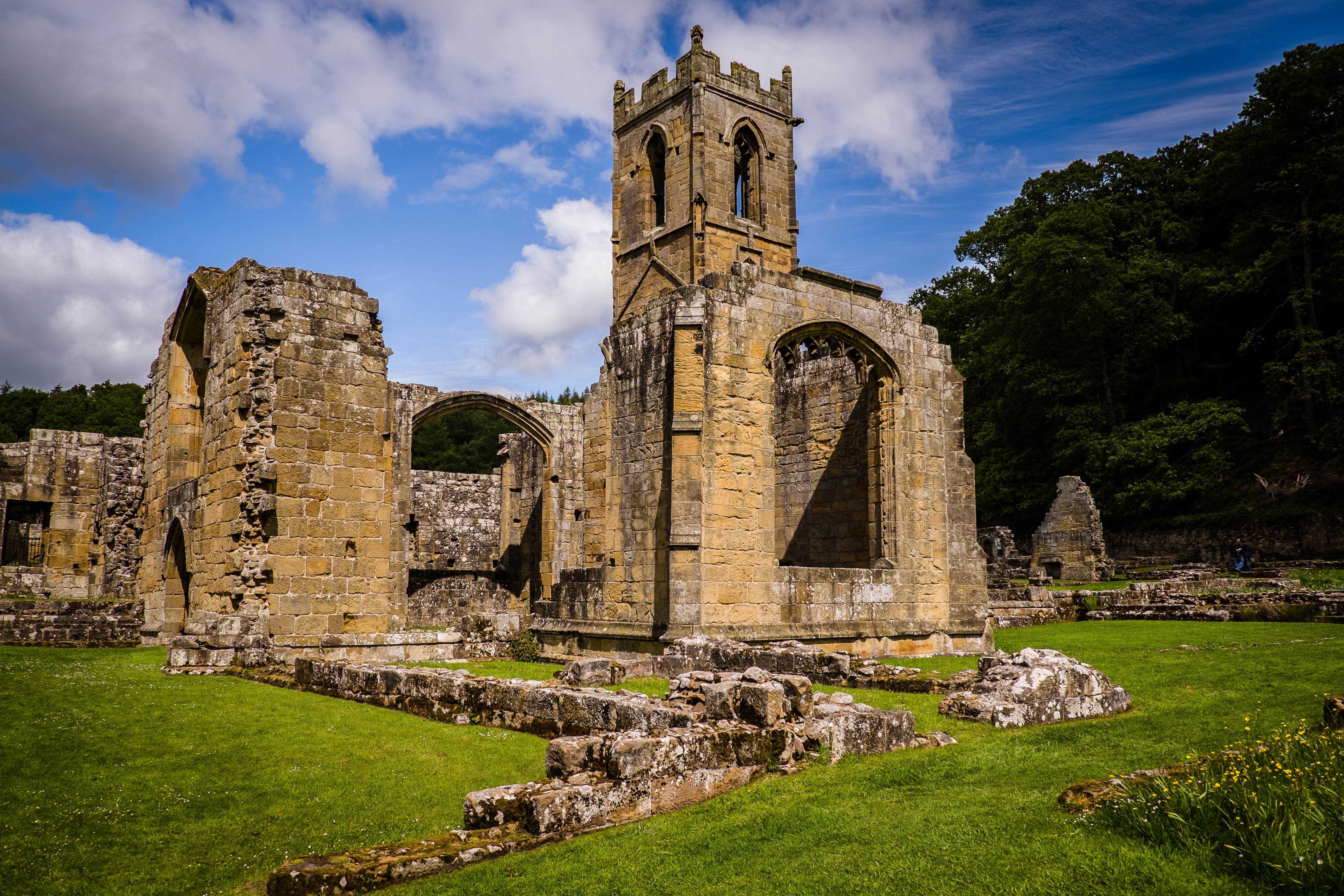 The best preserved Carthusian Priory in Britain.